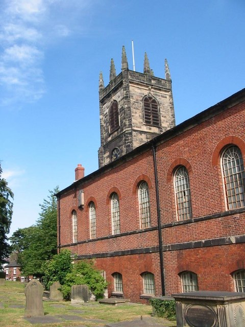 South side of St Peter's parish church, Congleton, Cheshire, seen from the southeast